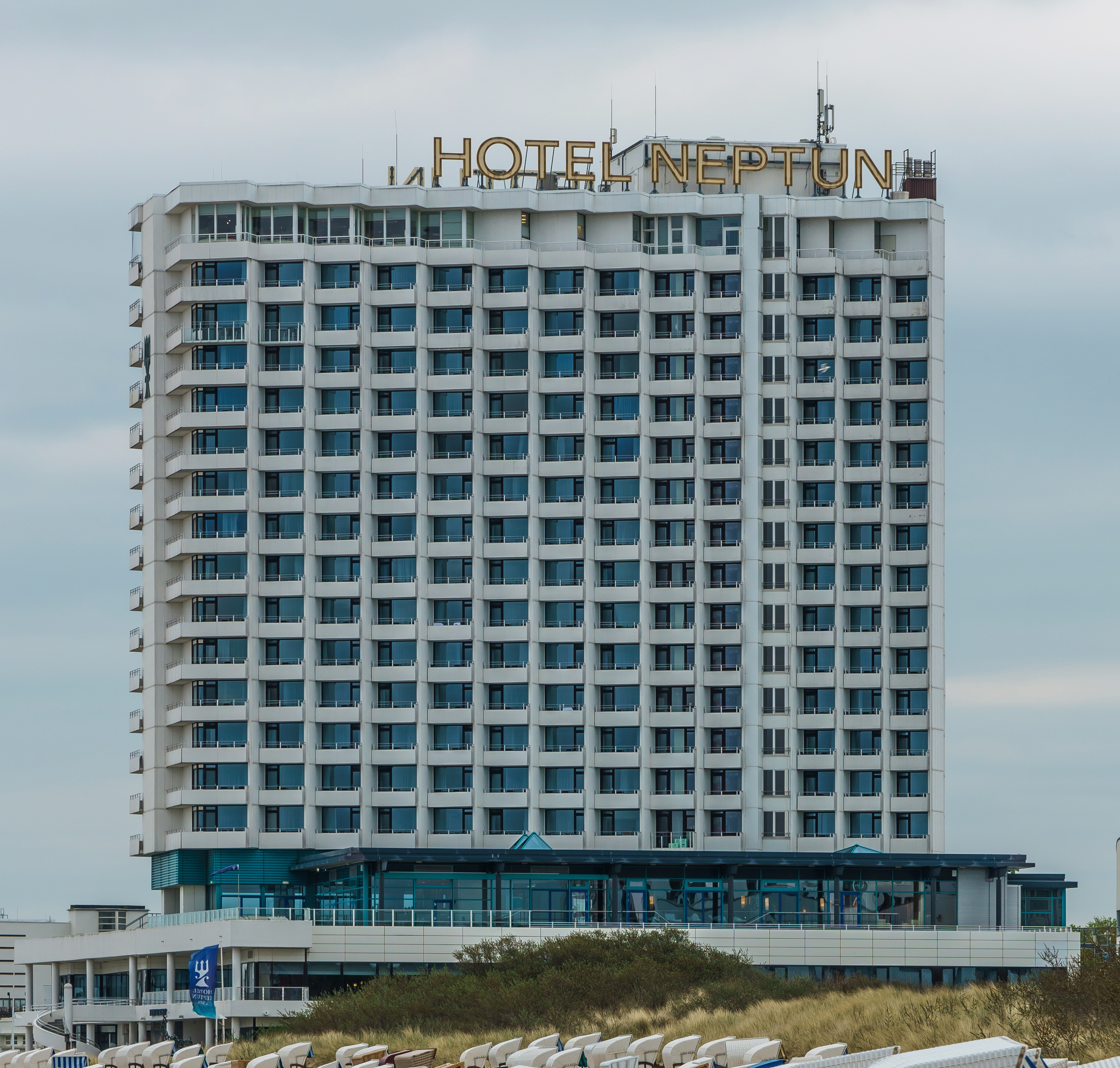 Hotel Neptun in Warnemünde, Rostock, Germany